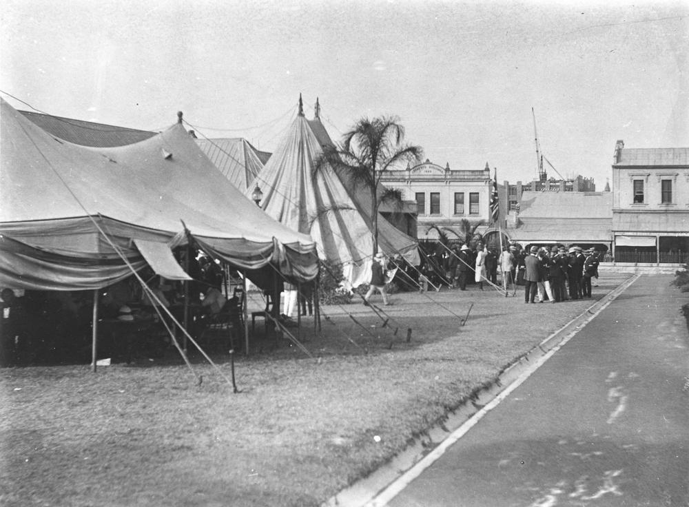 Police camp in Brisbane during the General Strike, 1912Special Constables at the police camp in Queens Park during the General Strike. Perry House is under construction in the background.